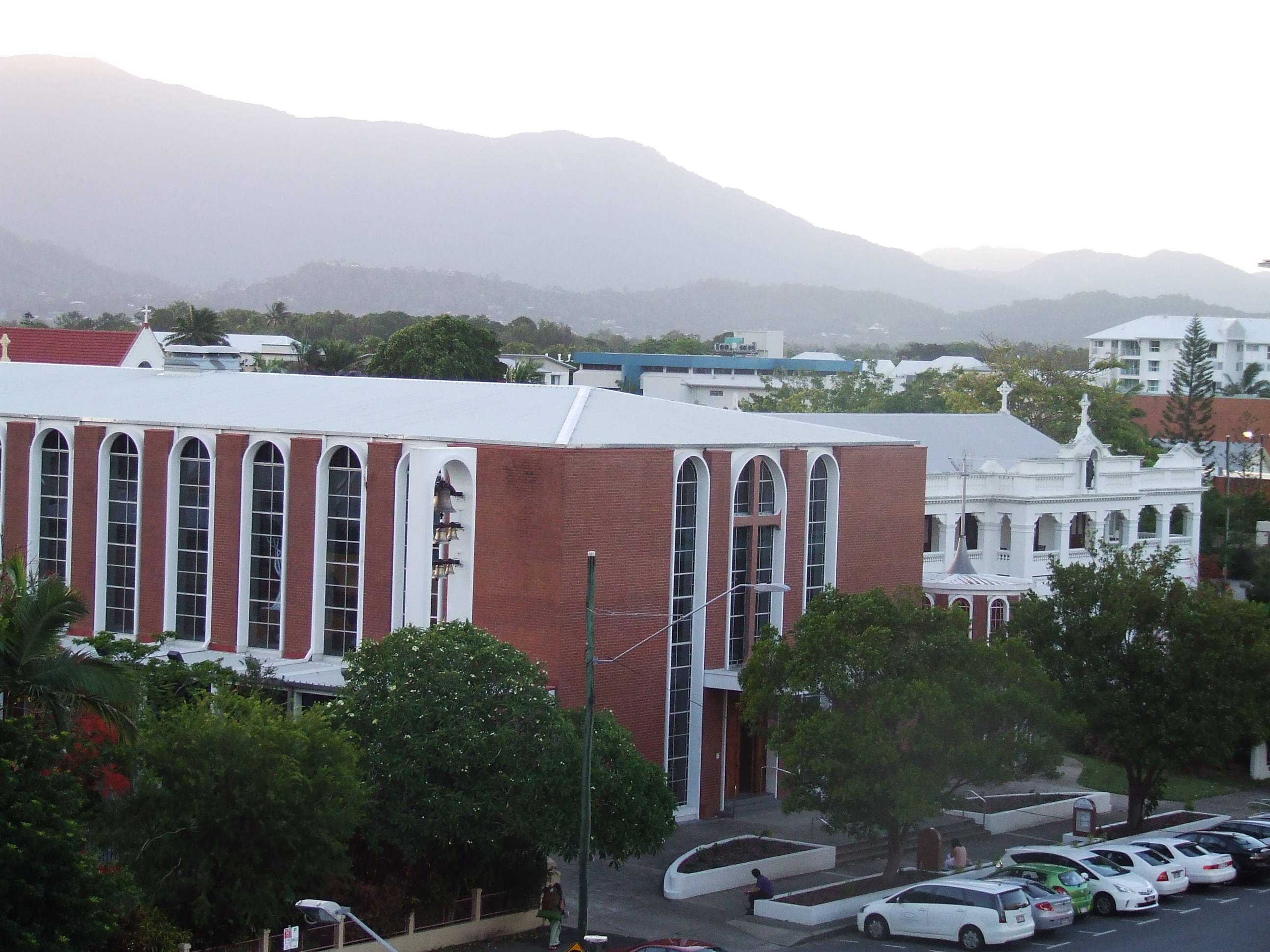 Southern and eastern elevations of the Roman Catholic cathedral church of St Monica, Cairns, QLD. Viewed from the 7th floor of the Holiday Inn, Florence Street.